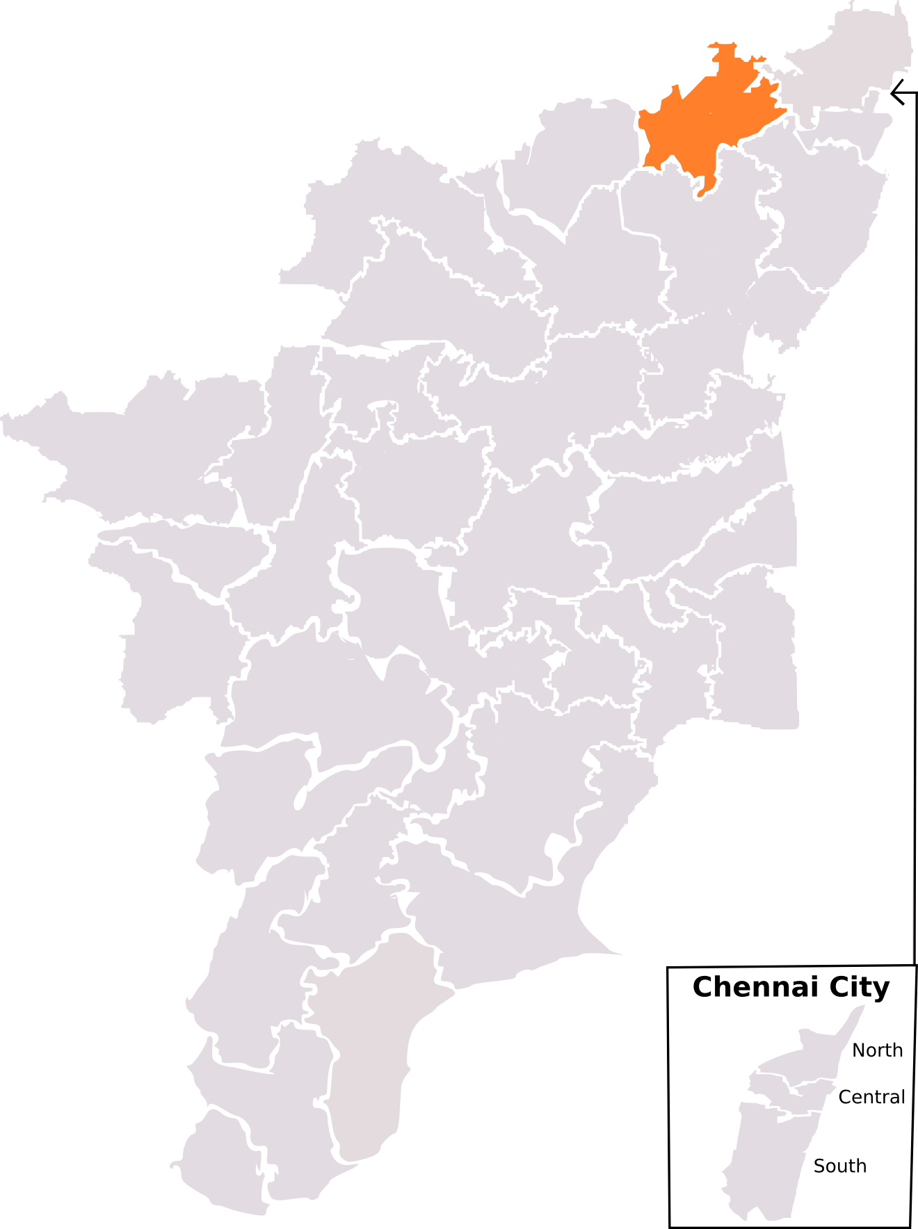 Lok Sabha Election map labeling each constituency for individual pages for Tamil Nadu after delimitation starting 2009 election. Map is based on ECI drawn map from